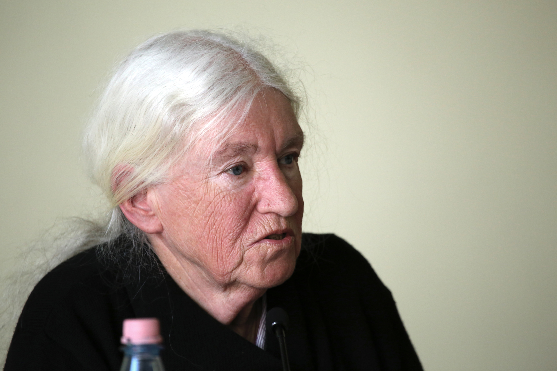 The strength of Critique: Trajectories of Marxism – Feminism Internationaler Kongress Berlin, 20.-22.3.2015